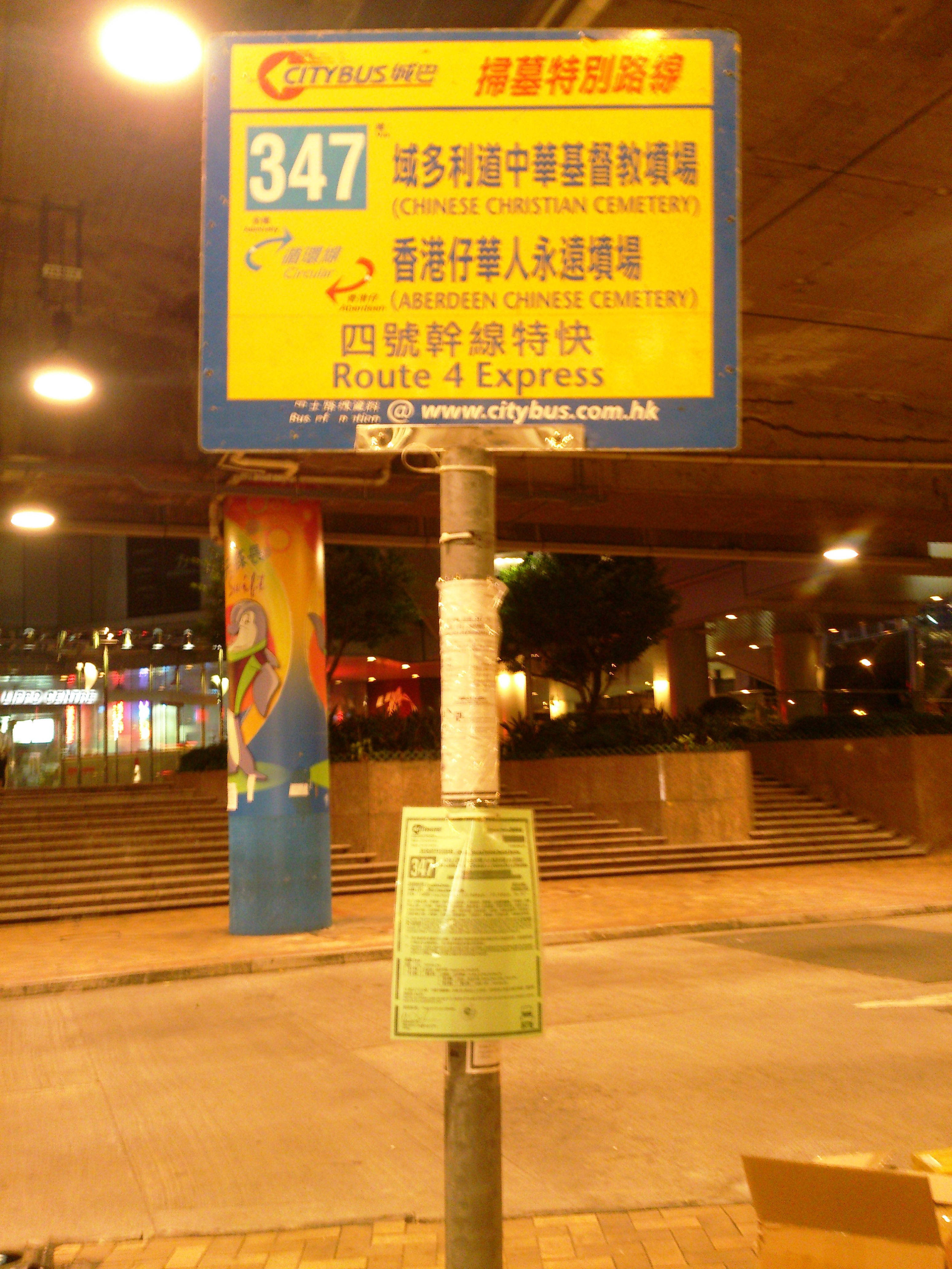 Suspended Bus stop of Route 347 in Admiralty (West) Terminus on 2014-10-29